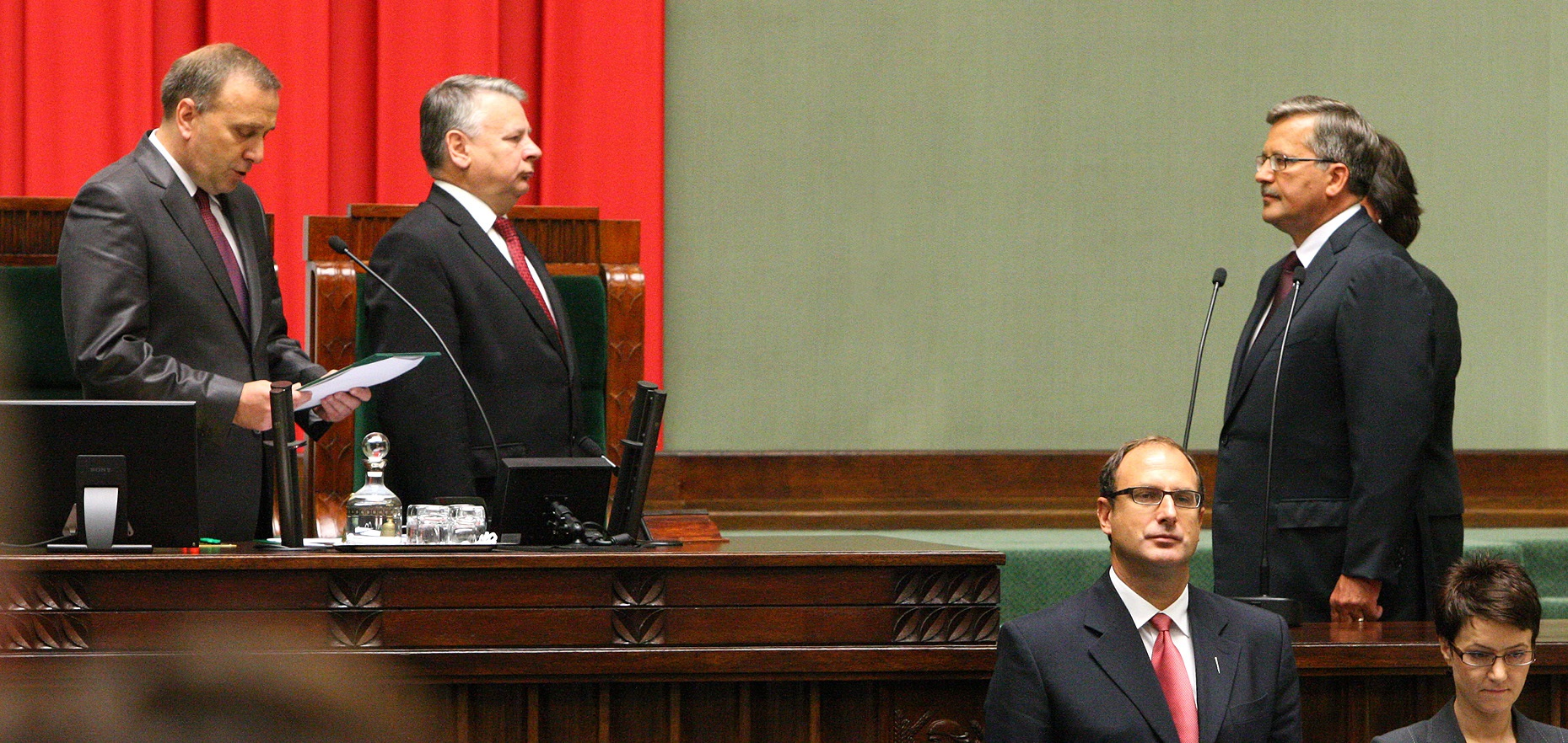 Bronisław Komorowski taking presidential oath in front of the National Assembly